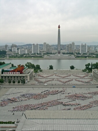 Pyongyang, view from the Study Hall to the Juche Tower. On the Kim Il Sung Place thousands are training for a torch march in october. August 2005.